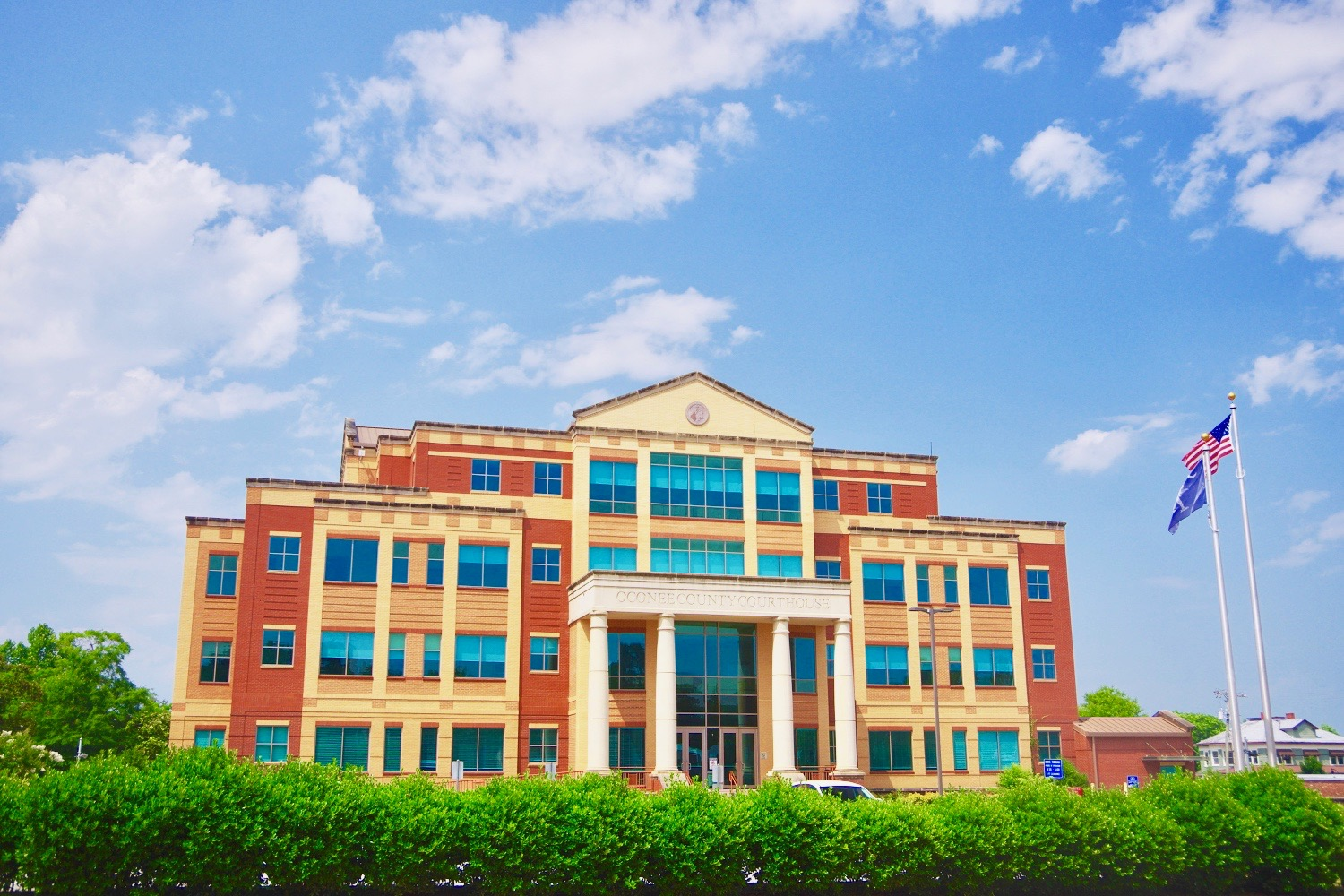 Oconee County Courthouse in Walhalla, South Carolina, United States.